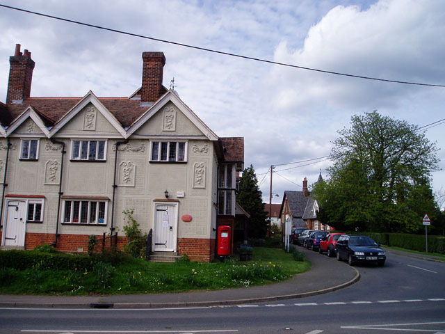 Radwinter post office. This typical Essex building also houses the village hall. The school can be seen in the background, on the right.